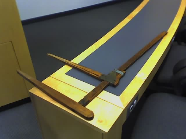 Jeffrey Hoffman Yip, photographed with a digital camera